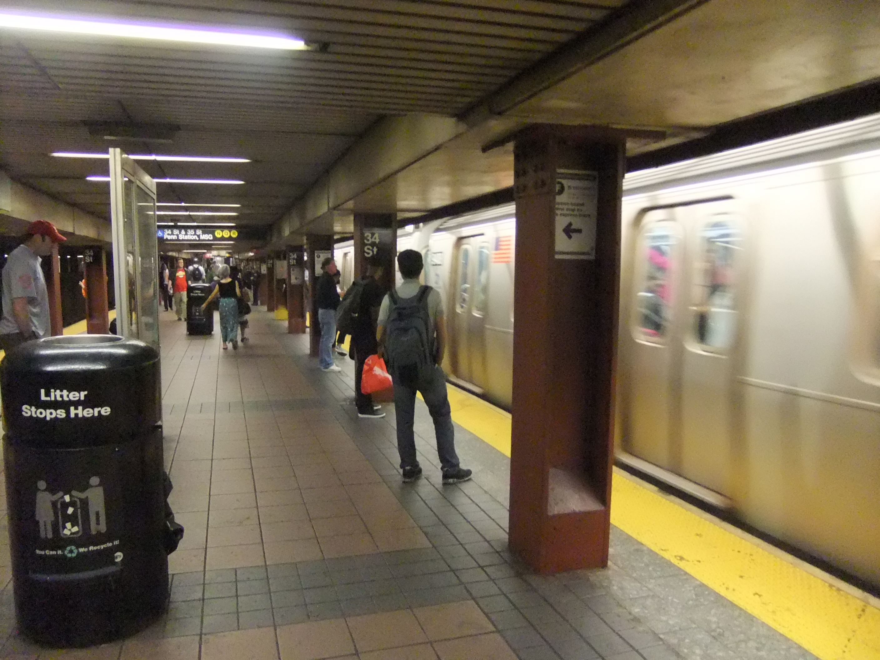 Uptown IND platform at 34th Street-Herald Square.